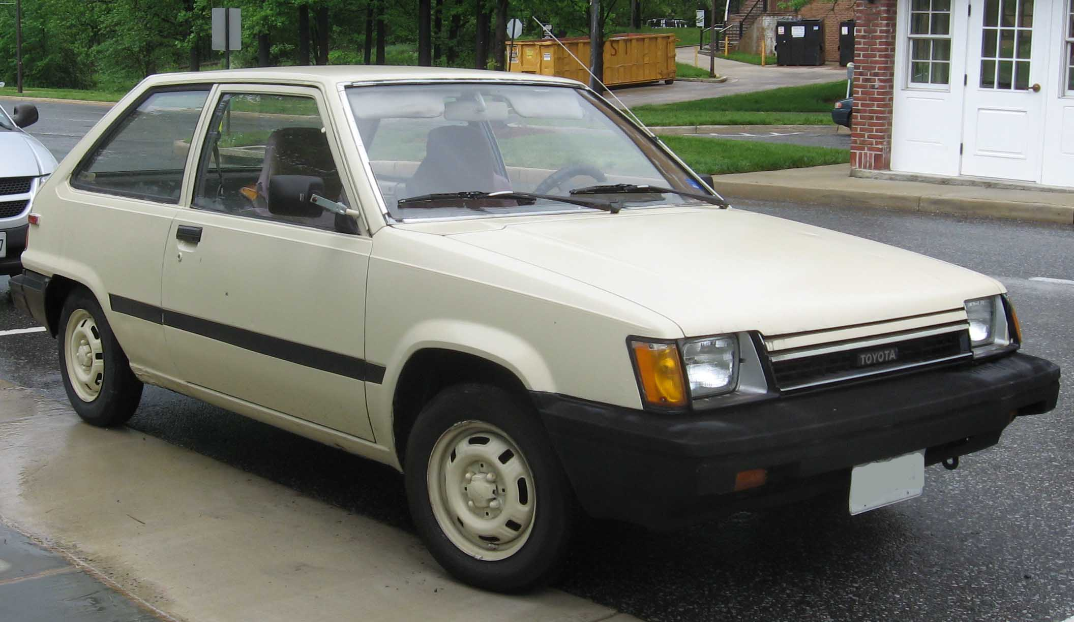 1983-1984 Toyota Tercel photographed in College Park, Maryland, USA.